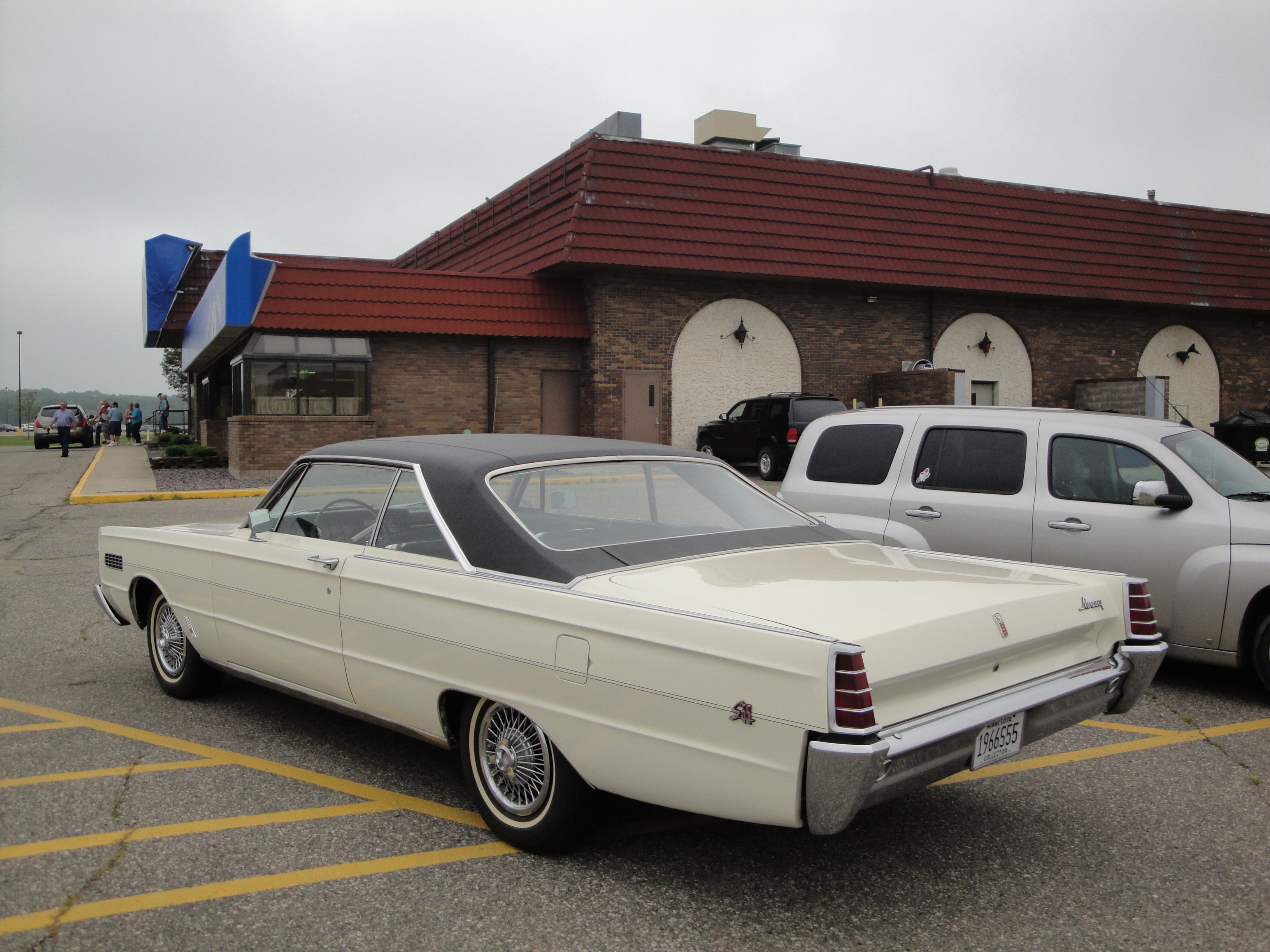 Willmar Car Club's Car Buffs' Breakfast and Pennock Parade